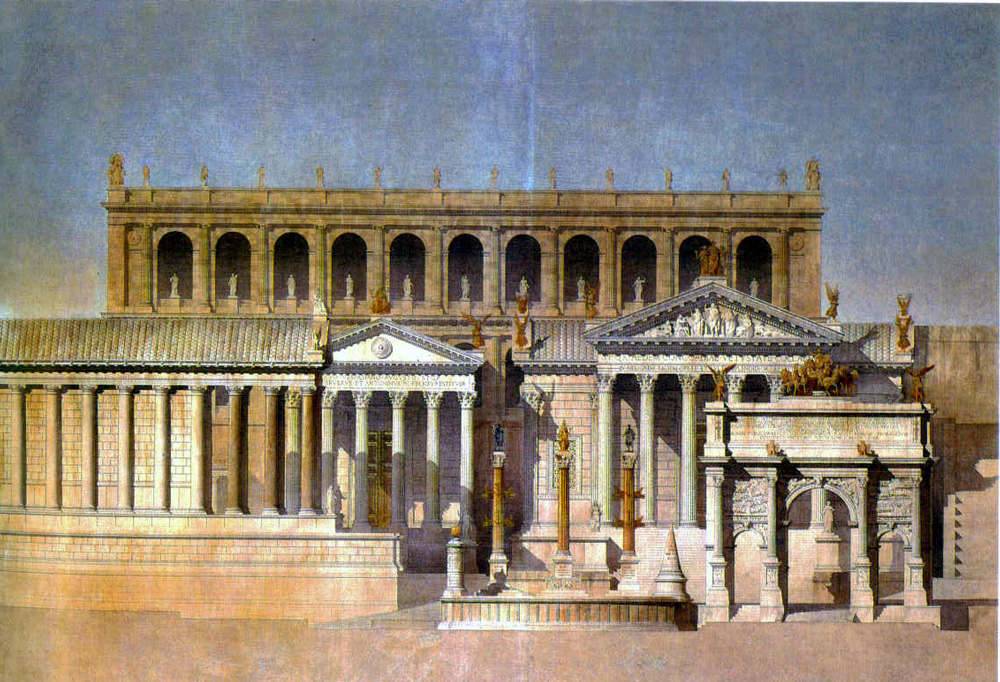 View on the Forum Romanum in ancient Rome - from left: Temple of Saturn, Temple of Vespasian, Rostra, Temple of Concord, Arch of Septimius Severus and Tabularium in background